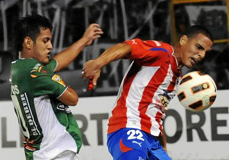 oriente petrolero in the libertadores cup 2011